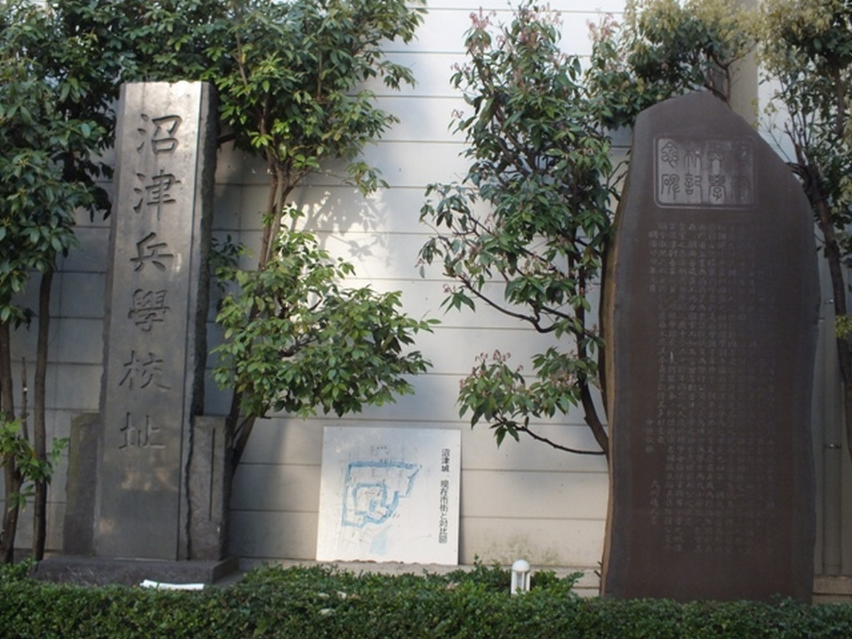 Monument commemorating site of Numazu Military Academy within Numazu Castle, Numazu, Shizuoka